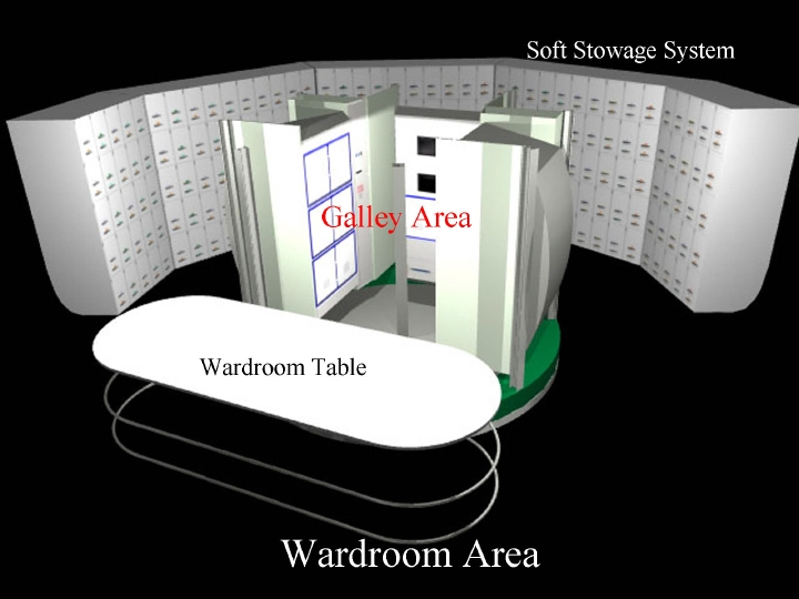 Computer Generated Still - Closeup of Transhab Module Level 1. Transhab Module to be installed on the International Space Station.